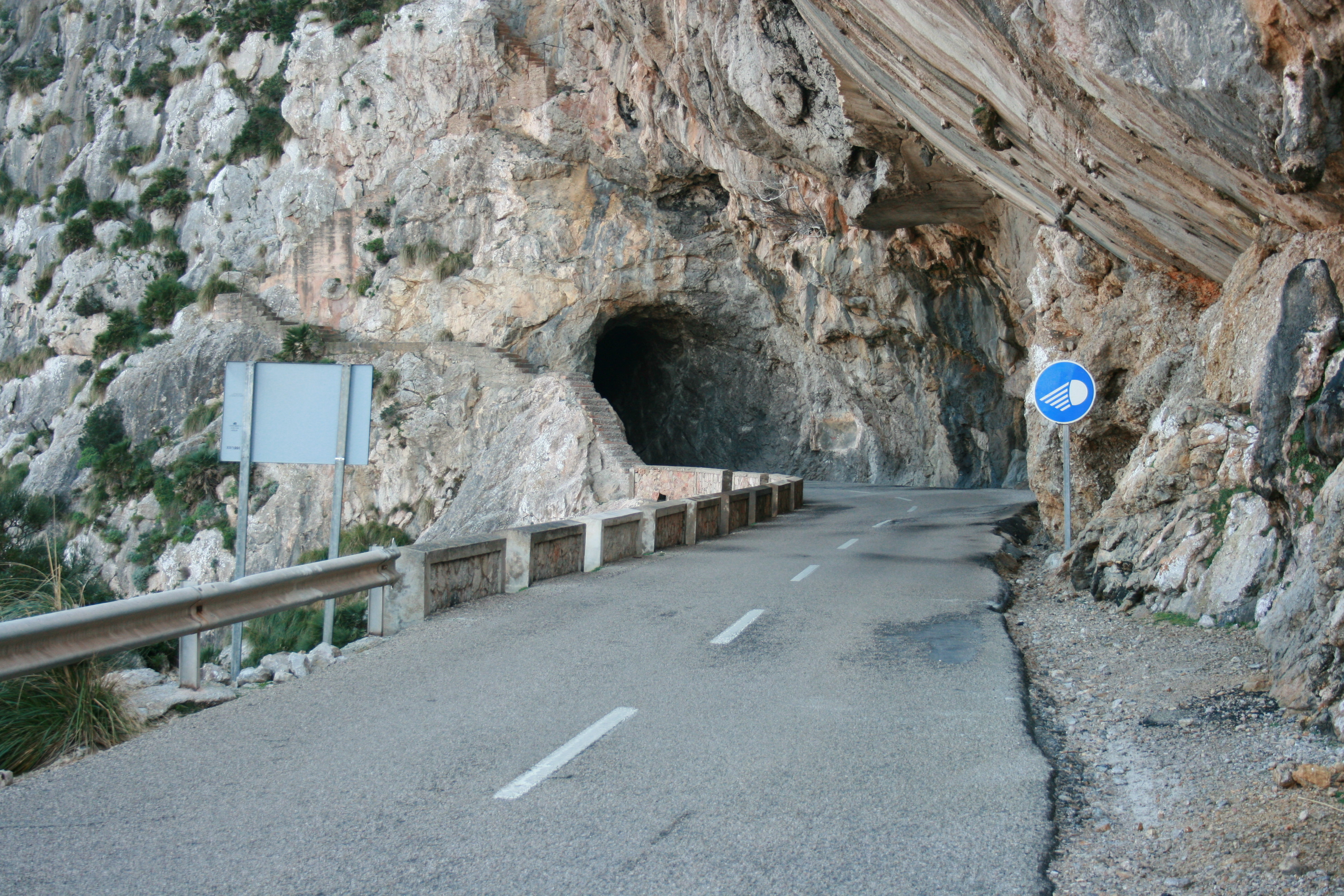 Road Ma-2210 close to Cala Figuera, peninsula of Formentor, Pollença, Mallorca